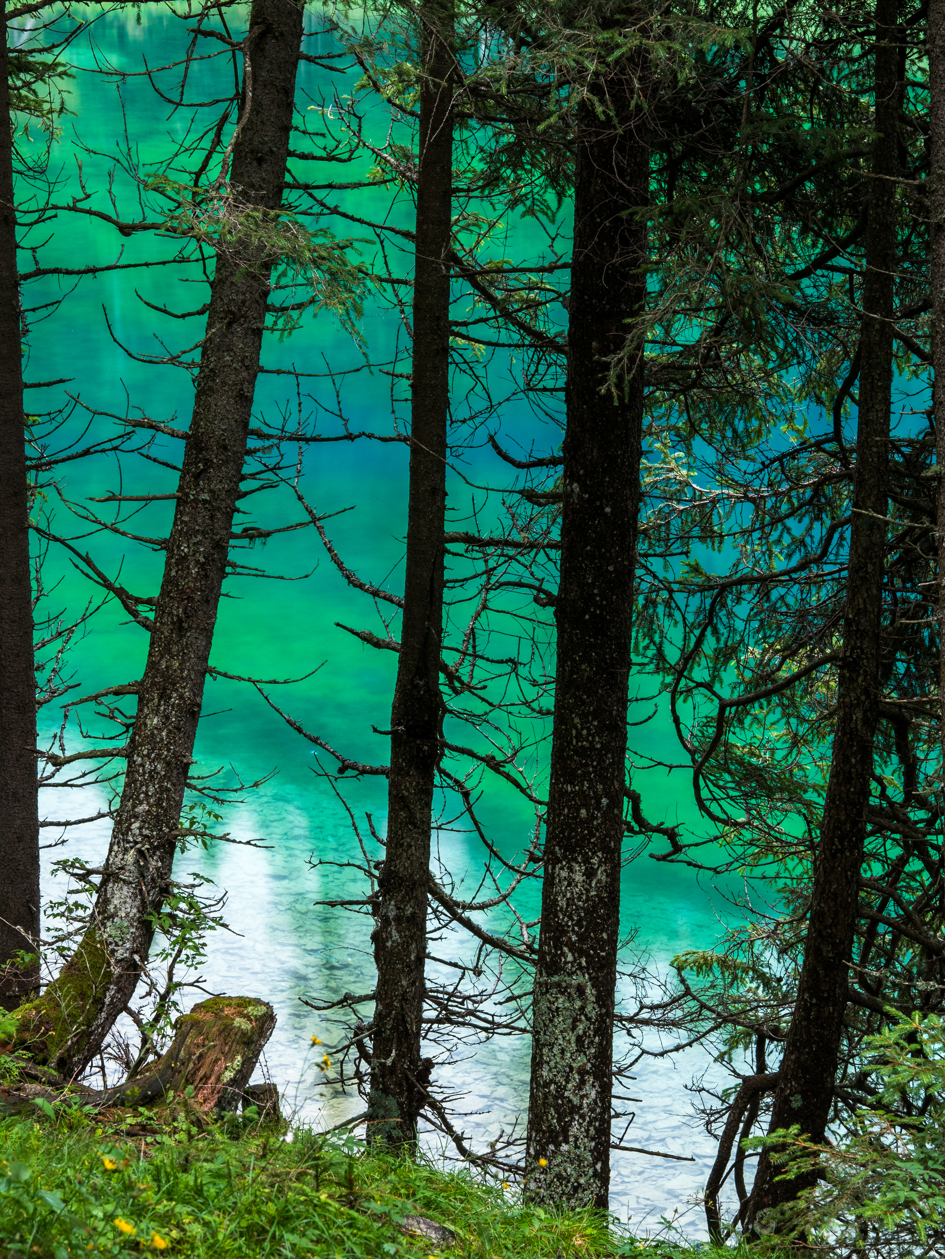 Colour gradient of green water at Obernberger See. Obernberg am Brenner, Tyrol, Austria